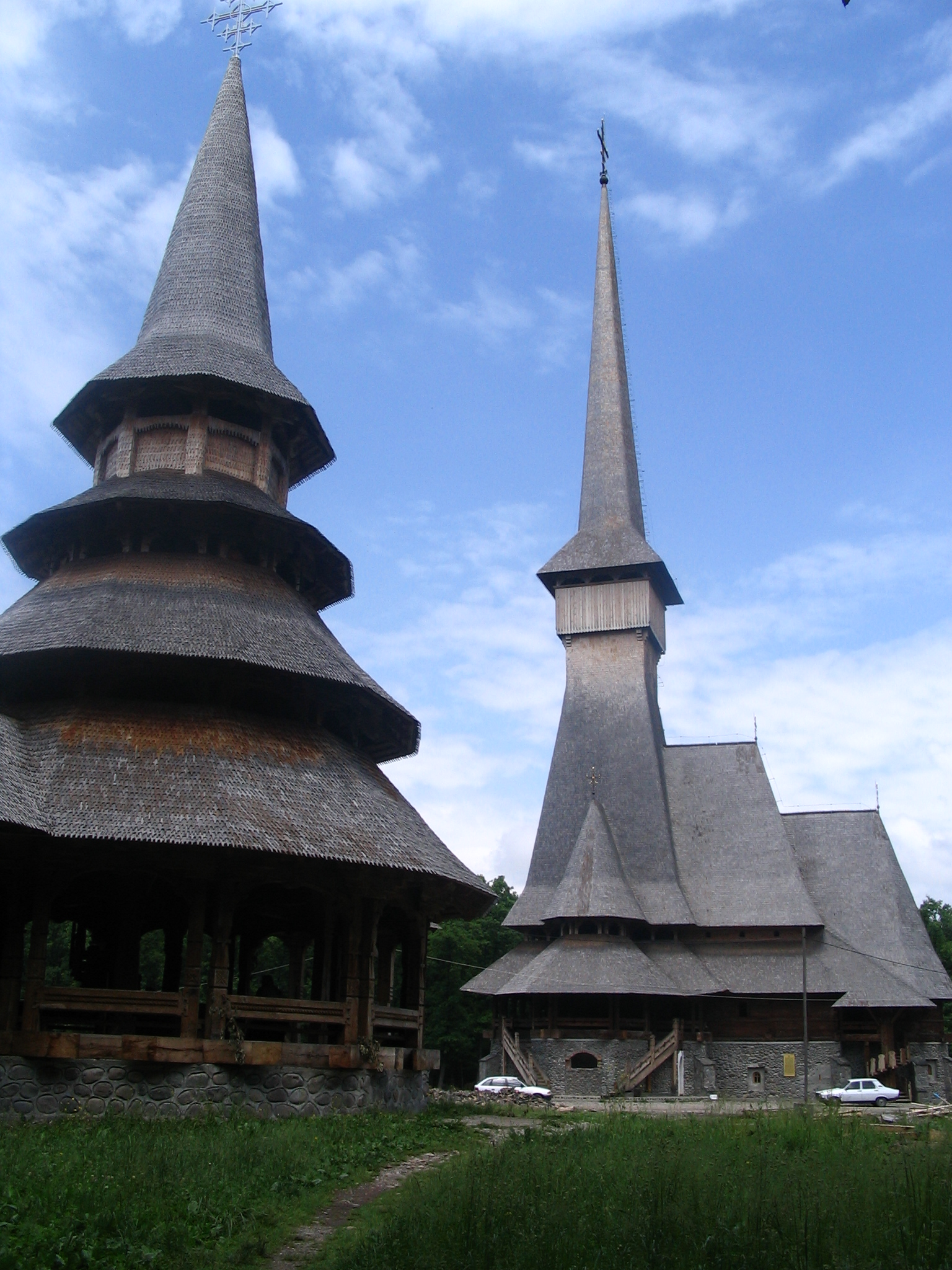 Monastaire in Romania